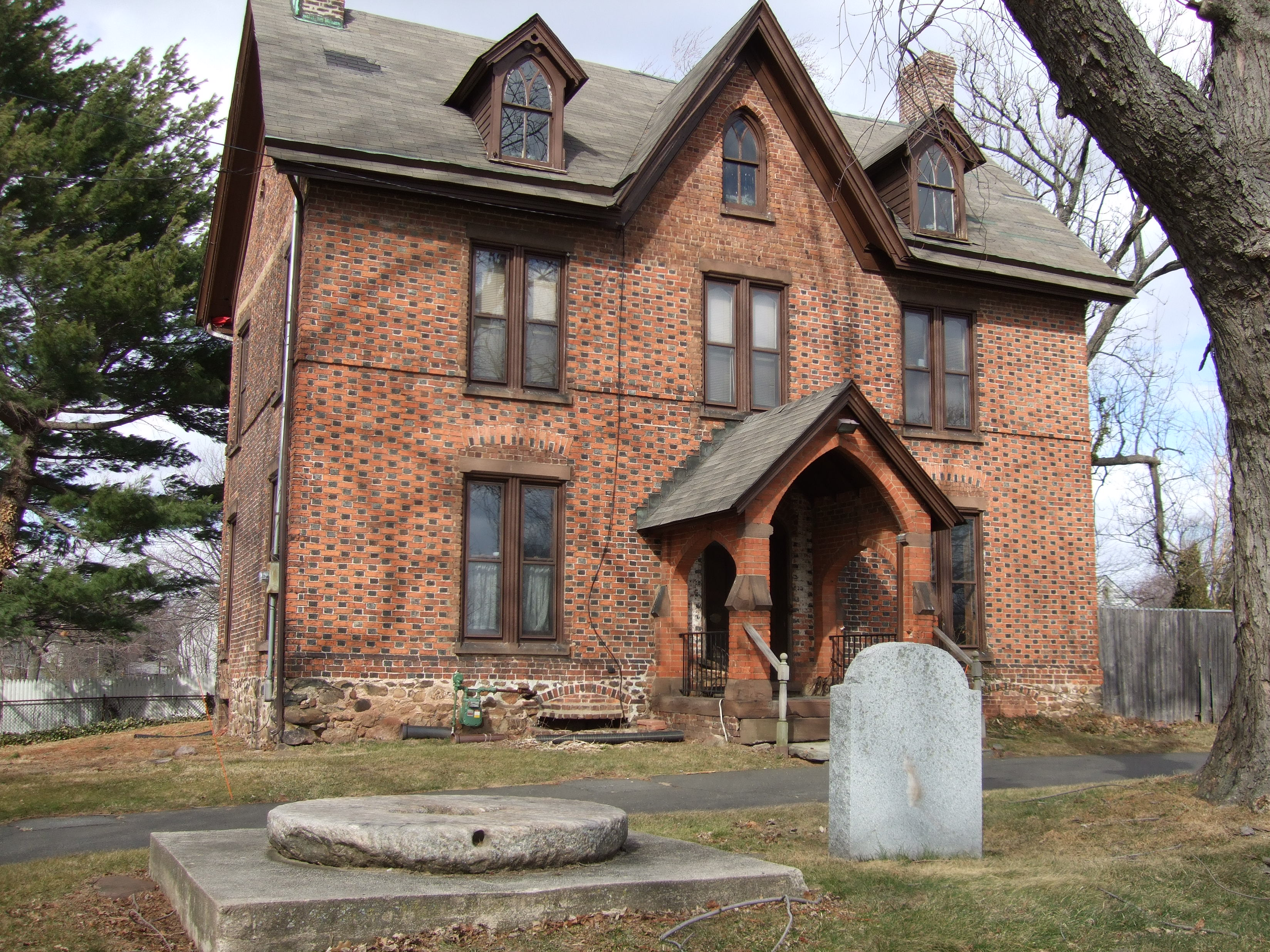 This photo depicts the home that Jonathan Dunham built in 1671 in Woodbridge, NJ